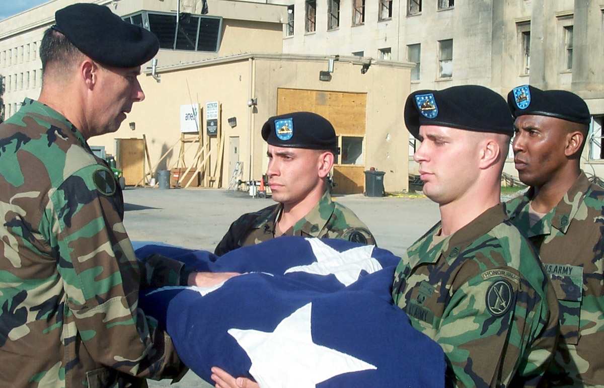 Soldiers from A Company, 1st Battalion, 3rd Infantry Regiment,"The Old Guard," present Military District of Washington Commander Major General Jim Jackson with the American flag that draped the side of the Pentagon beside the impact site where terrorists crashed a hijacked airliner September 11, 2001, the soldiers lowered and folded the flag October 11, 2001. (U.S. Air Force Photo by Jim Garamone)